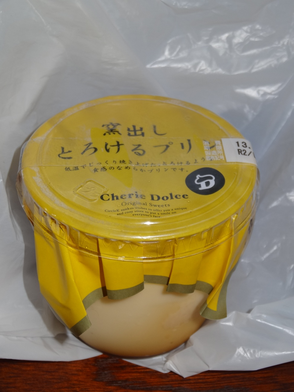 Cherie Dolce Pudding - Circle K Sunkus (Japanese Convenience store)